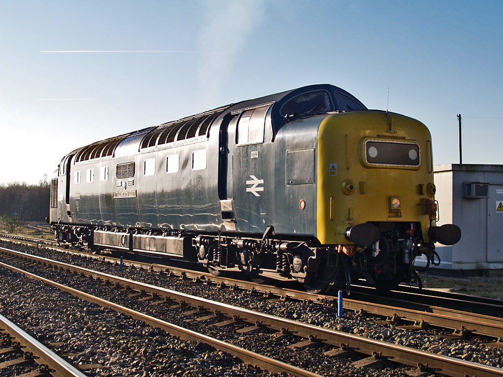 Beaver Sports (Yorks) Limited’s former British Railways English Electric Type 5 Co-Co class 55 ‘Deltic’ class diesel-electric locomotive number 55022 ROYAL SCOTS GREY (TOPS number 89500) stands on the Down Goods Loop at Castleton East Junction after running the 06:00 (Additional) Bo’ness Junction Exchange Sidings to Castleton East Junction (0Z55). Thursday 13th December 2007